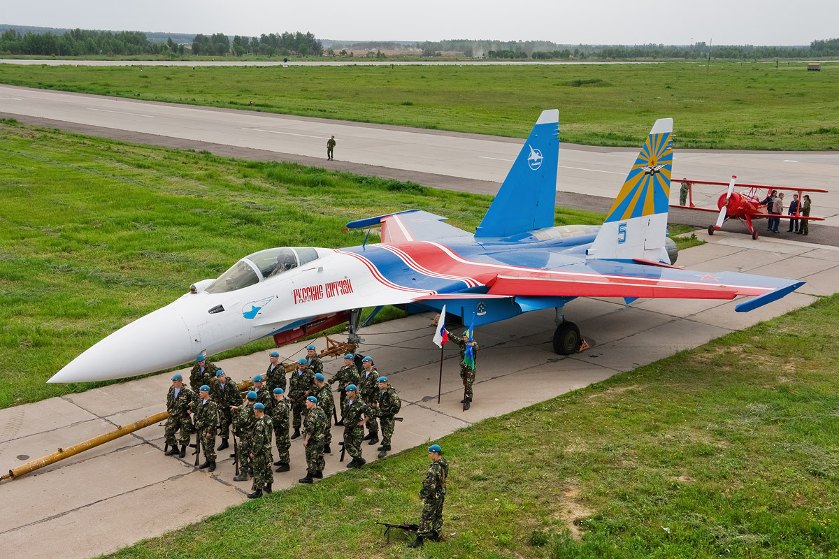 Sukhoi Su-35 and Avion MAI F-1 sporting bi-plane behind